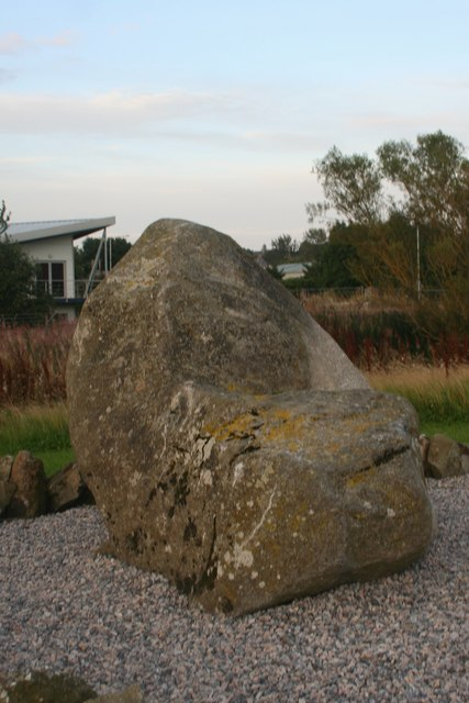 Bruce's Seat. Now situated by the new roundabout on the Oldmeldrum by-pass this stone was originally located on nearby Barra Hill. By repute it is the stone that the ill Robert the Bruce sat on as he directed the Battle of Barra in 1308.